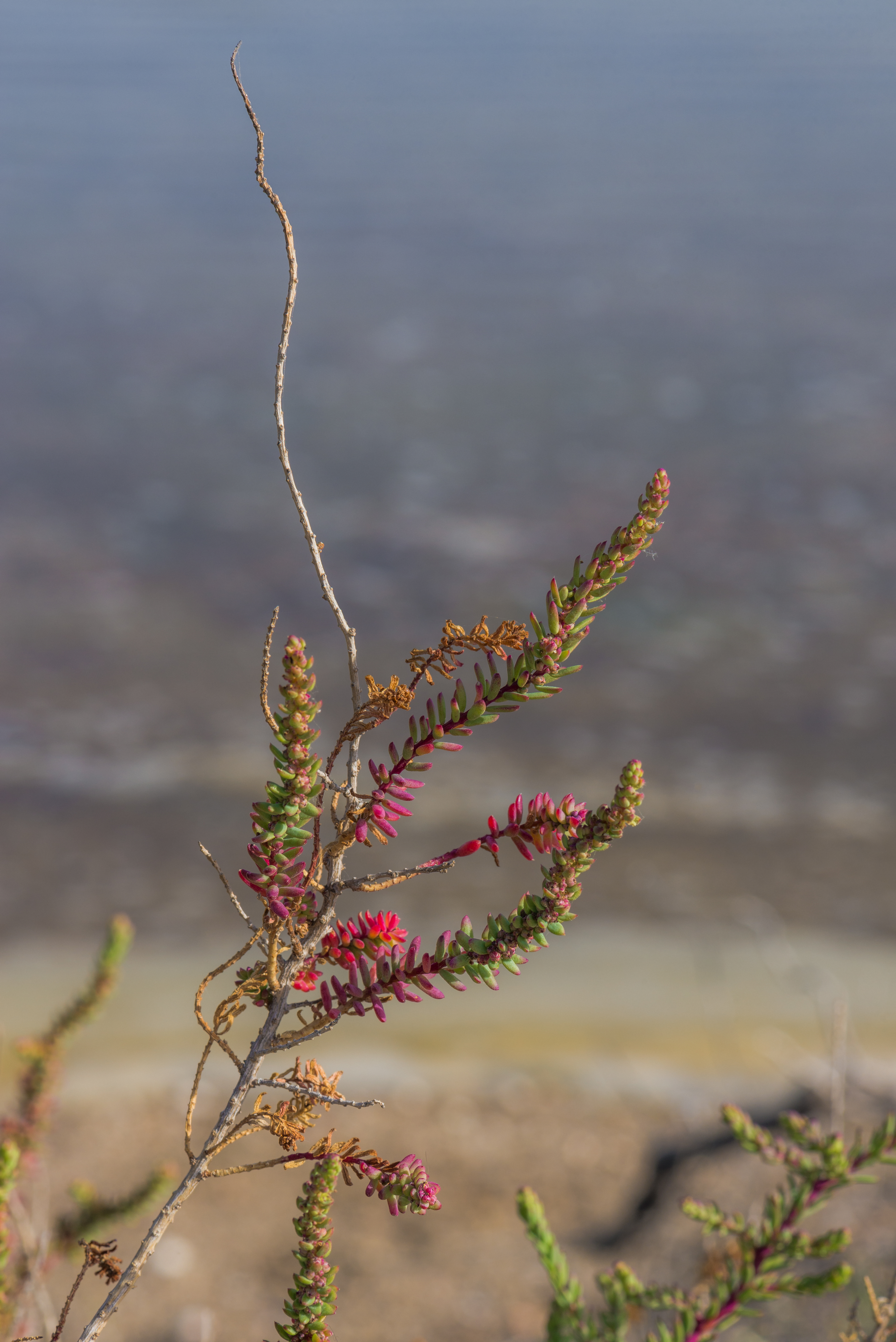 Branches of Suaeda vera (Shrubby Sea-blite). Place : "Lido de Thau", an area protected by the Conservatoire du littoral. Sète, Hérault, France.